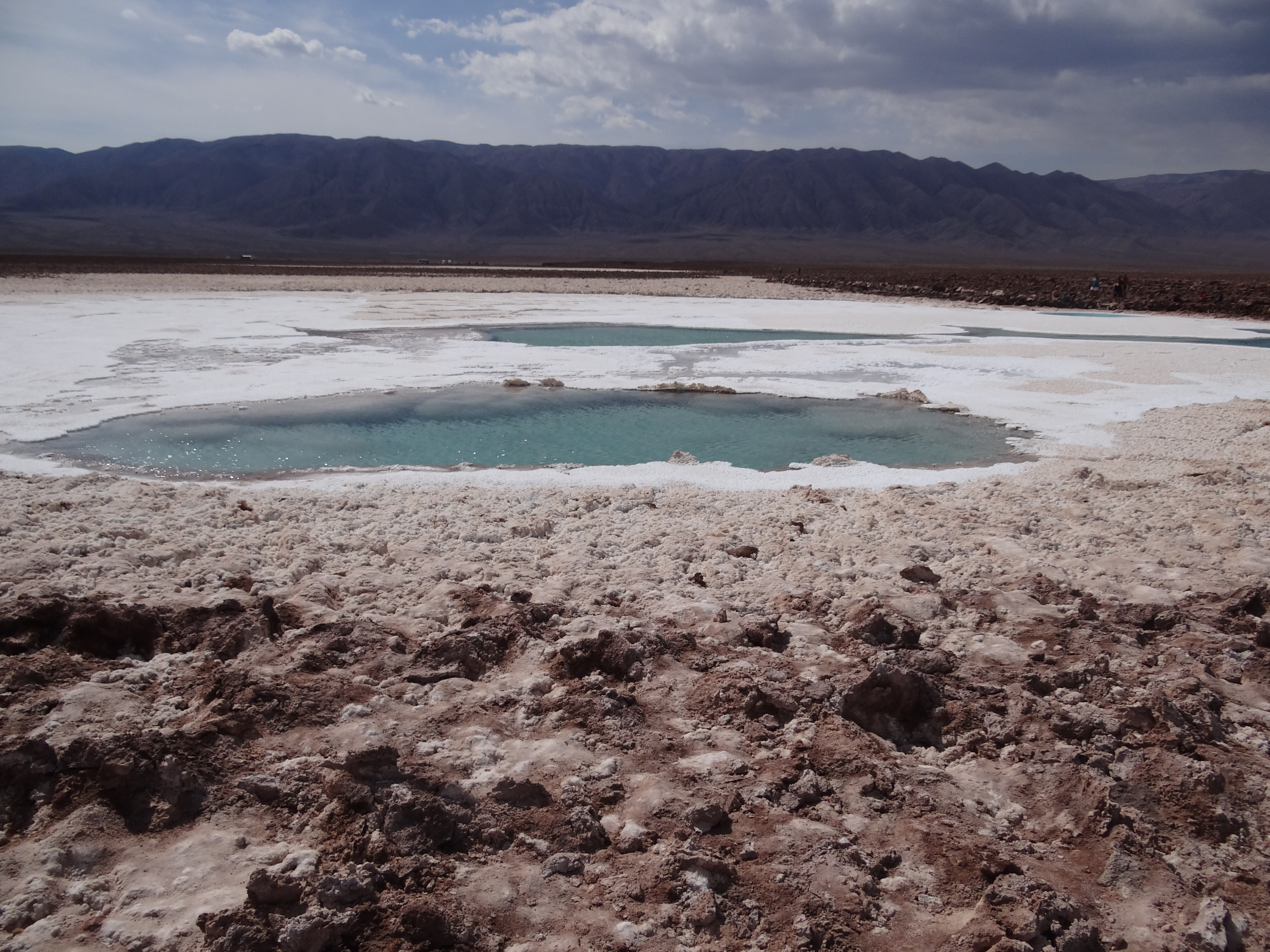 Salty lagoons in Baltinache